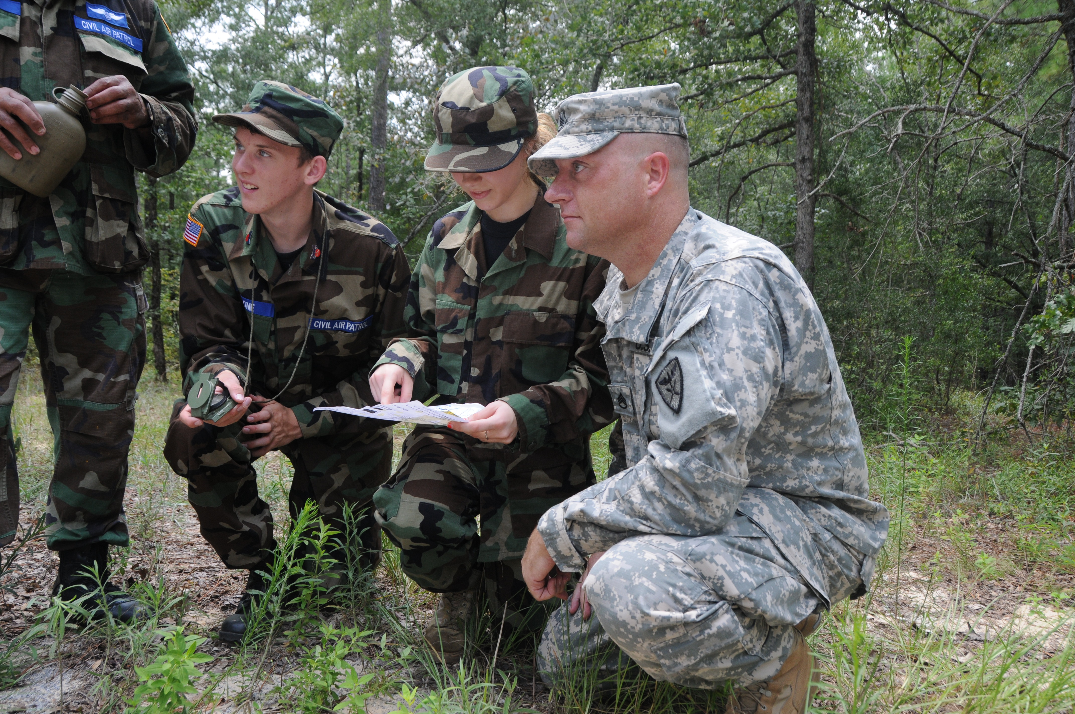 Staff Sgt. Vernon McNabb, B Com., 1st Bn., 13th Avn. Regt., helps two cadets locate their next point. (Photo by Sara E. Martin)